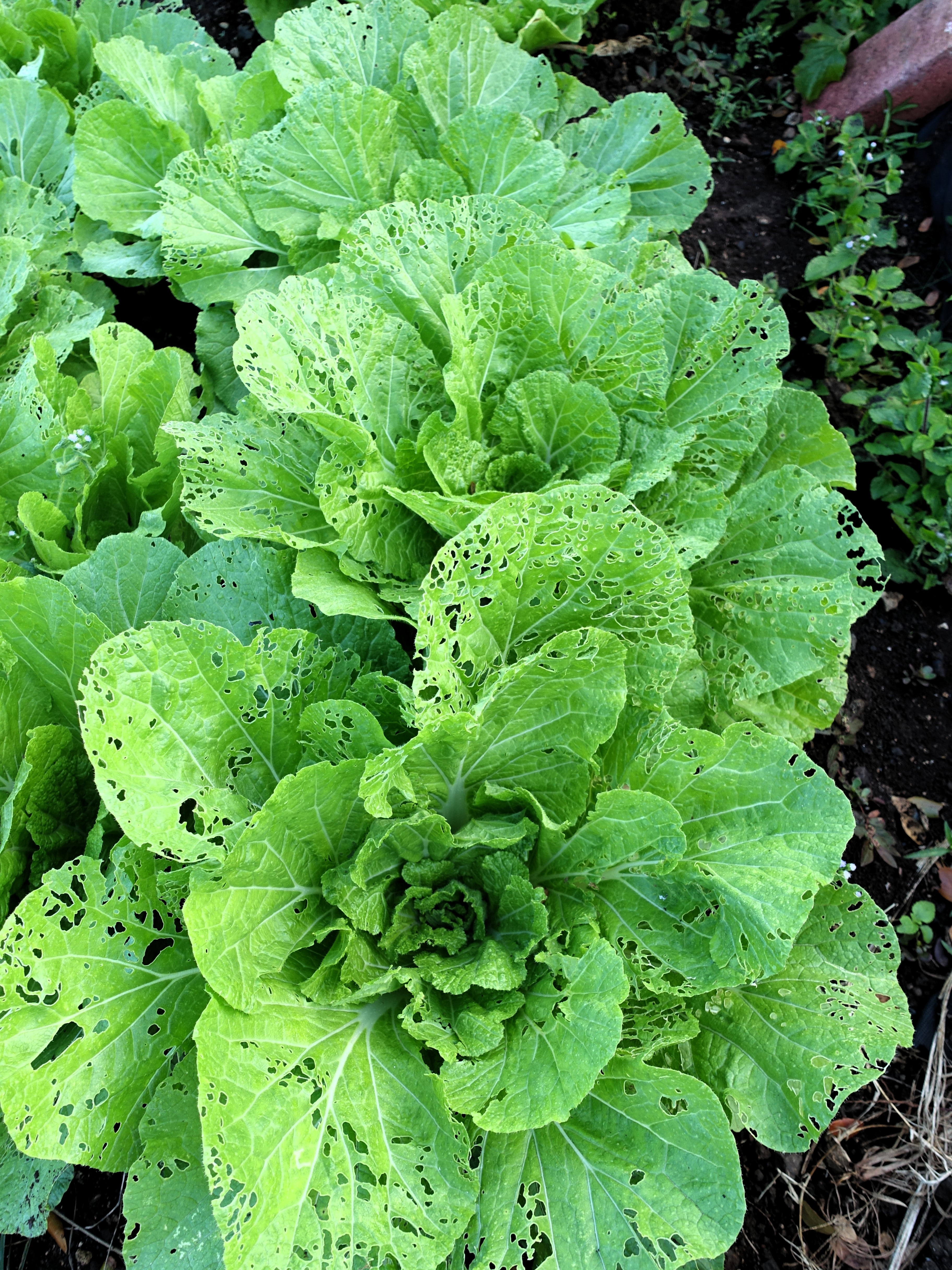 Chinese rose beetle feeding injury